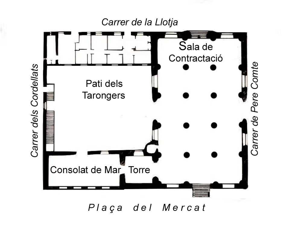 Pla de la llotja de València